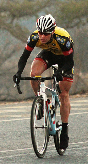 South African cyclist Reinardt Janse Van Rensburg at the beginning of the first stage of the 2012 Jock Cycle Classique